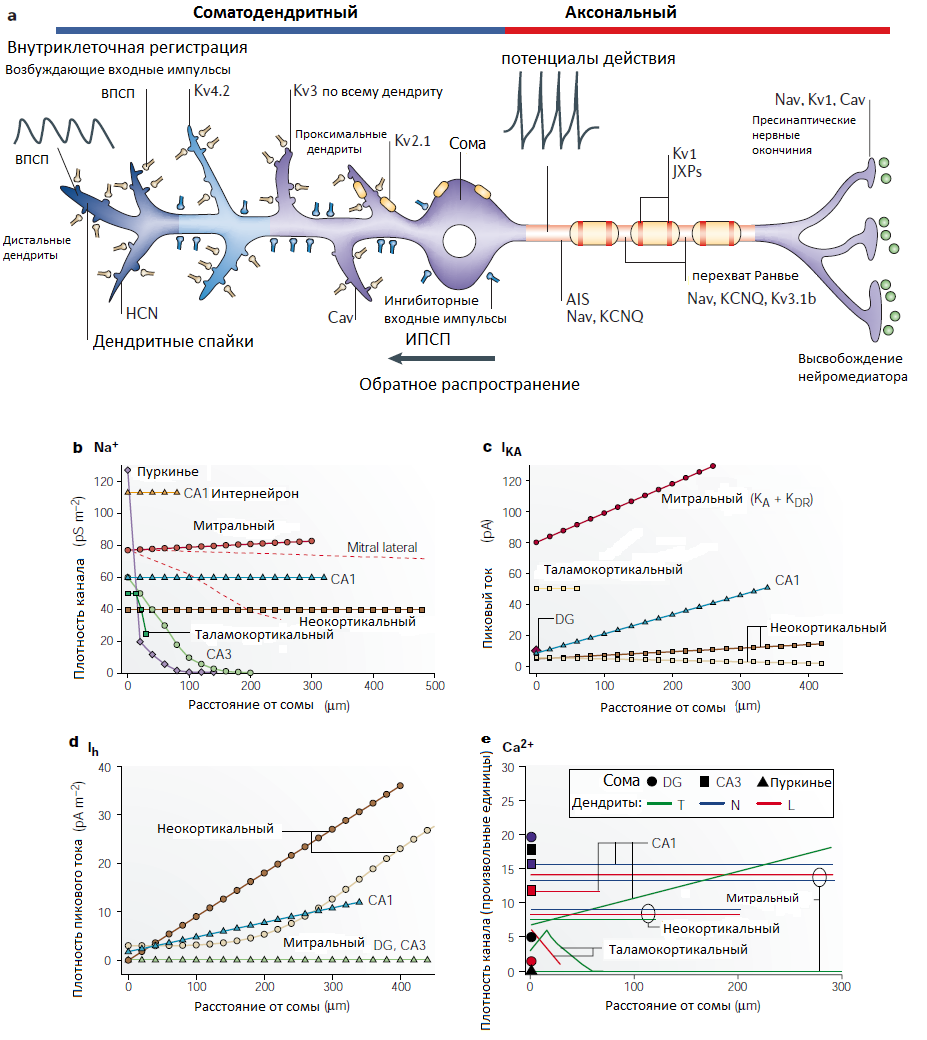 Images adapted and modified from "The distribution and targeting of neuronal voltage-gated ion channels" and "Emerging rules for the distributions of active dendritic conductances." In general, Nav channels are found in the axon initial segment (AIS), nodes of Ranvier and presynaptic terminals. Voltage-gated potassium Kv1 channels are found at the Juxtaparanodes (JXPs) in adult myelinated axons and presynaptic terminals. The Kv channel KCNQ is found at the AIS and nodes of Ranvier, and Kv3.1b channels are also found at the nodes of Ranvier. Canonically, excitatory and inhibitory inputs (EPSPs and IPSPs — excitatory and inhibitory postsynaptic potentials; yellow and blue presynaptic nerve terminals, respectively) from the somatodendritic region spread passively to the AIS where action potentials are generated by depolarization, and travel by saltatory conduction to the presynaptic nerve terminals to activate voltage-gated calcium (Cav) channels that increase intracellular calcium levels, thereby triggering neurotransmitter release. Hyperpolarization-activated cyclic-nucleotide-gated (HCN) channels have a gradient distribution that increases in density from the soma to the distal dendrites (dark blue shading). Kv2.1 channels are found in clusters on the soma and proximal dendrites (light yellow ovals). Kv3 channels are found throughout the dendrite. Kv4.2 channels are located more prominently on distal dendrites (light blue shading). Kv channels in the dendrites contribute to controlling back propagation. Strong enough inputs in the dendritic region can generate dendritic action potentials. Dendritic Cav channels increase in density toward the proximal dendrites and the soma.